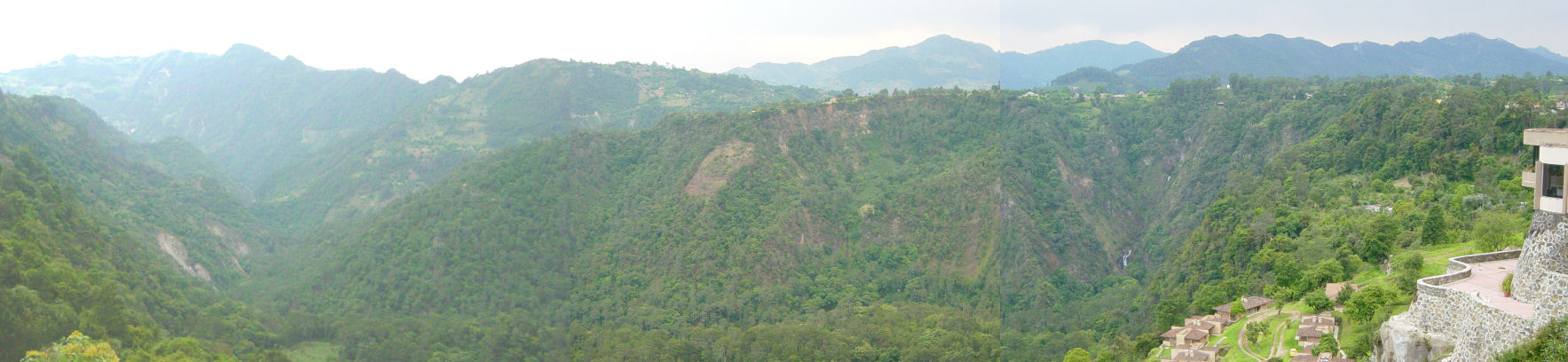 Zacatlán Canyon — in the Sierra Norte de Puebla, Puebla state, México. Autor:Christopher Ramírez Carreto